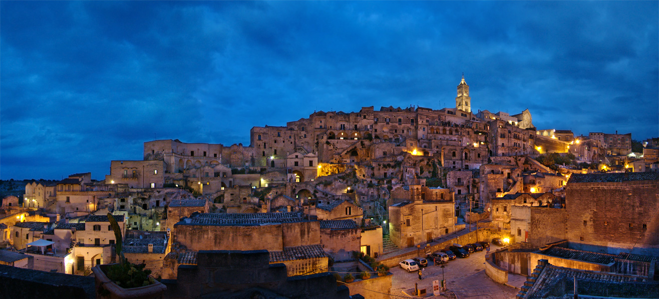 Matera, Basilicata, Italy. The Sasso Barisano looking east.